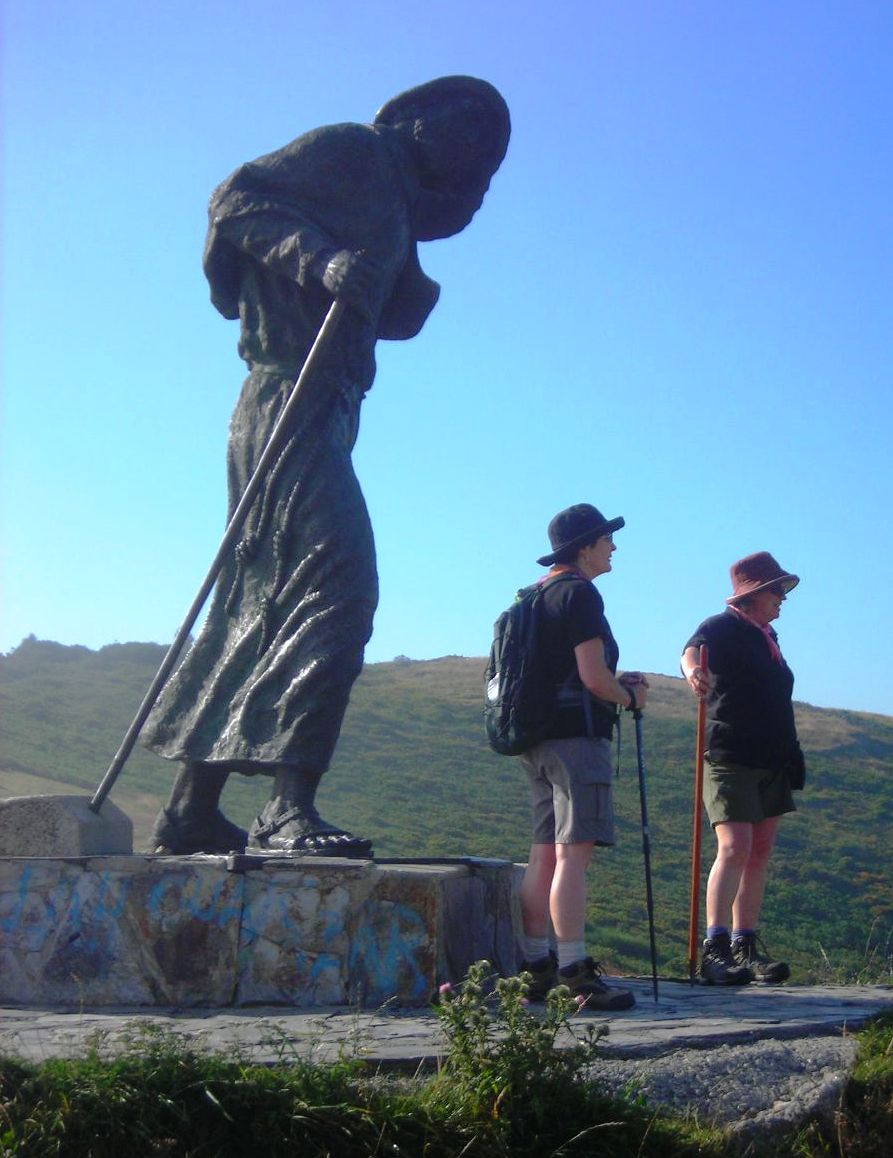 The Alto de San Roque in between Linares and Hospital on our walk out of O'Cebreiro.